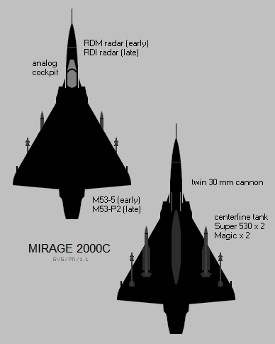 Plan-view silhouettes of the Dassault Mirage 2000 showing external stores